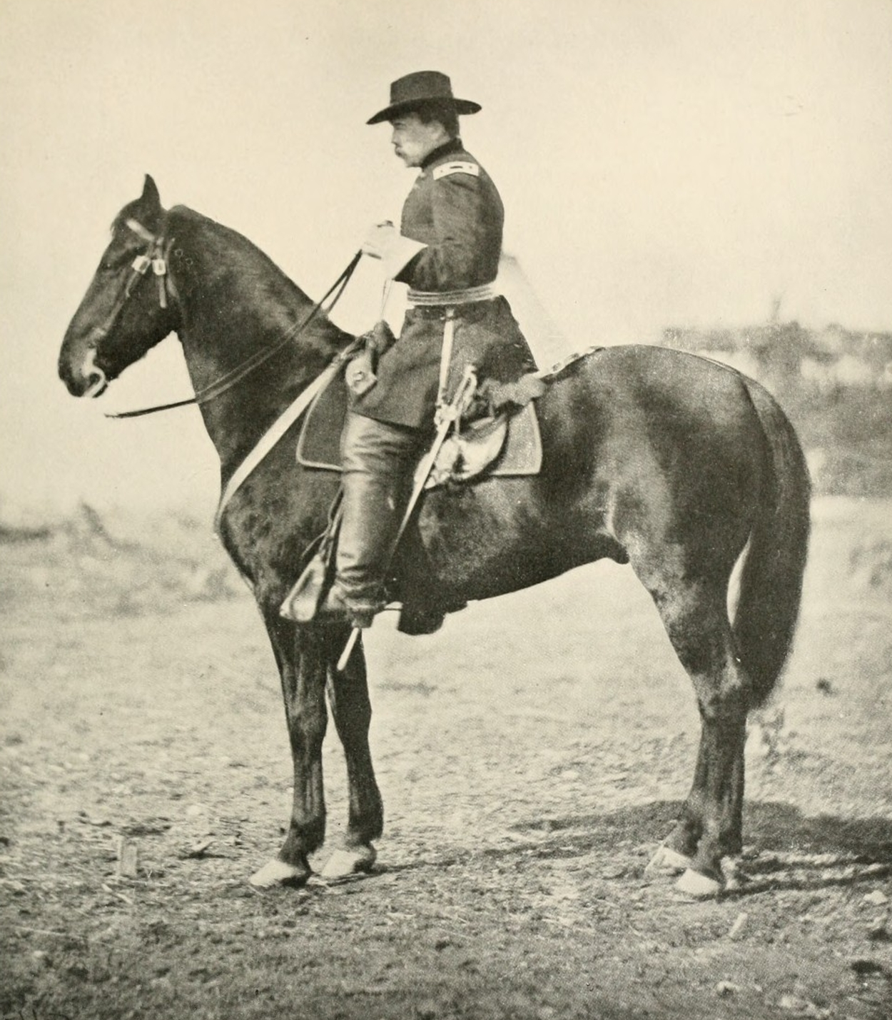 Union General Daniel Butterfield (1831-1901)